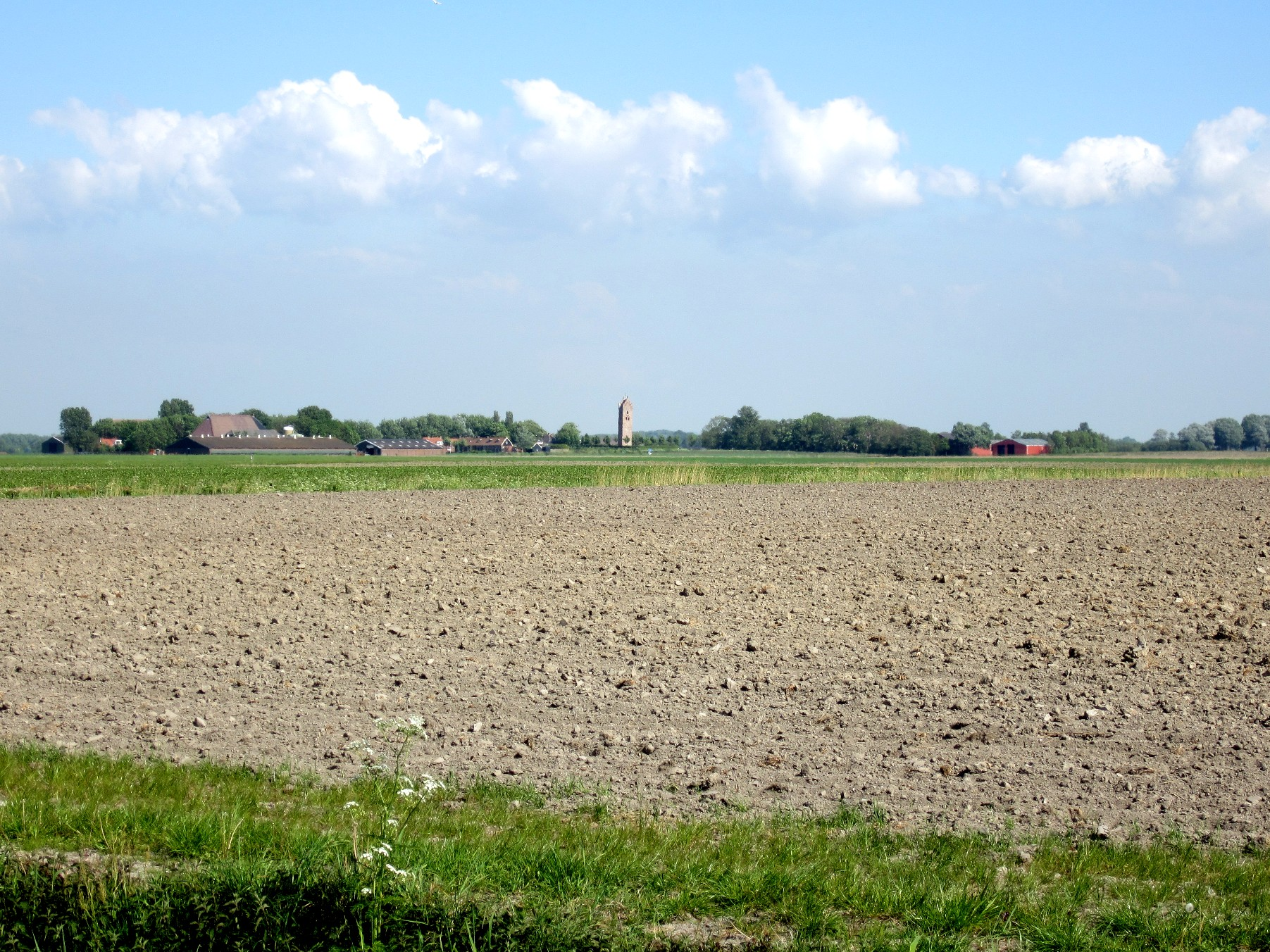 The village of Furdgum (Firdgum), Friesland, the Netherlands, as viewed from the direction of the Hoarnestreek (road), meaning from the north.